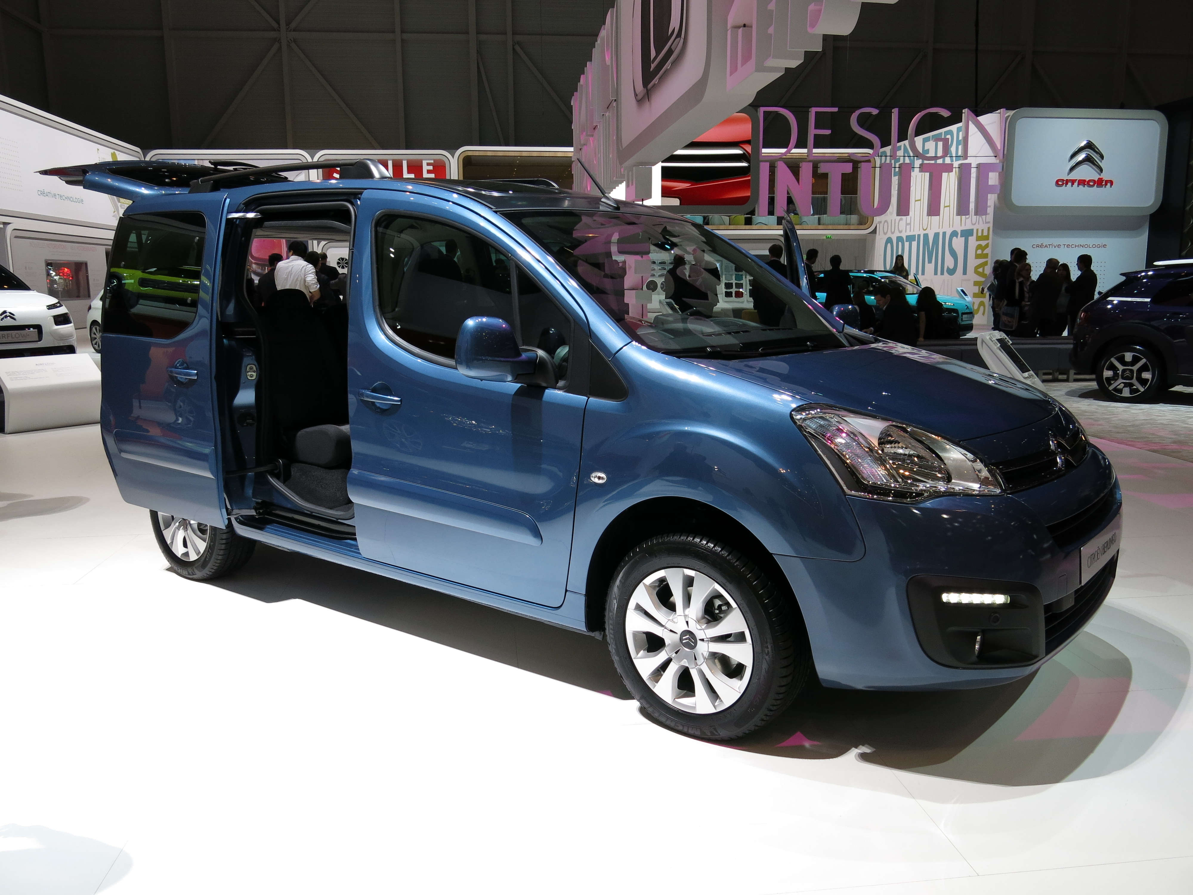 Geneva Motor Show 2015 (photo taken on the first press day)